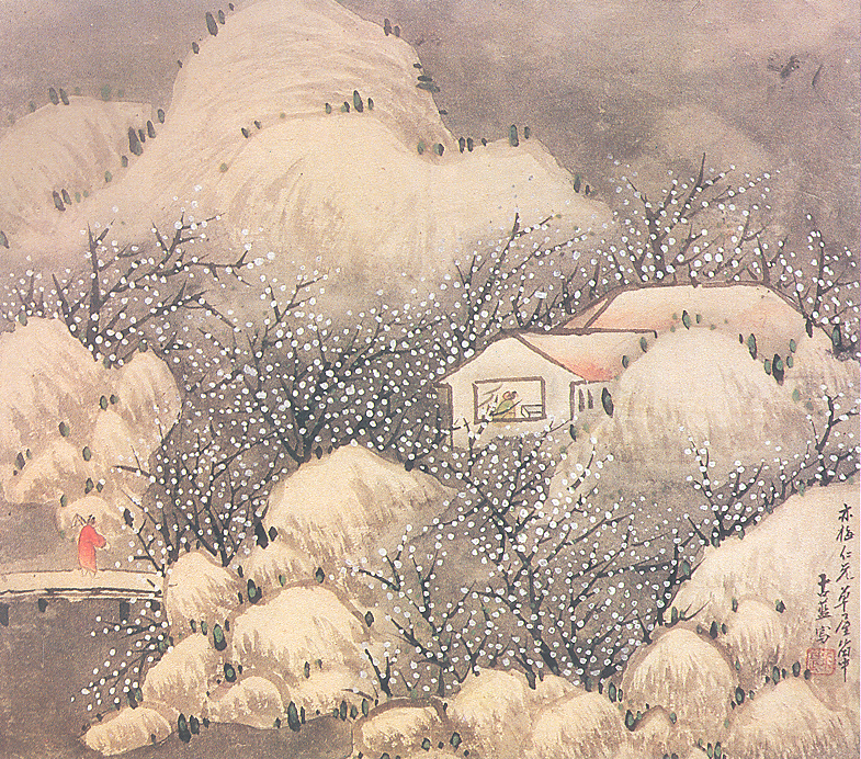 plum blossom thatched house by Jeon gi